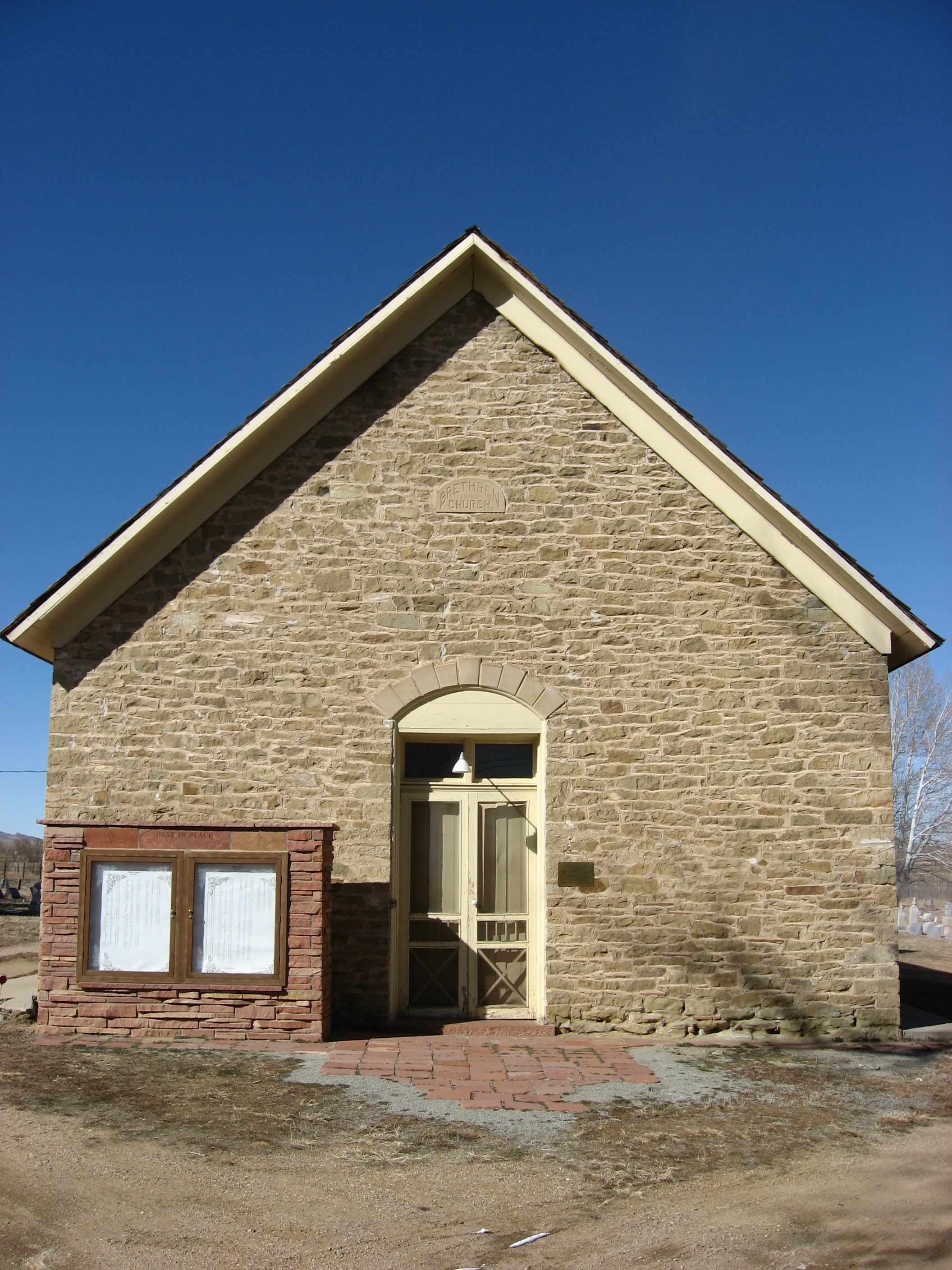 Entrance (southern side) of the Church of the Brethren in the small community of Hygiene, Colorado, United States. Built in 1888 and located along 17th Avenue (Hygiene Road), the stone church is listed on the National Register of Historic Places.